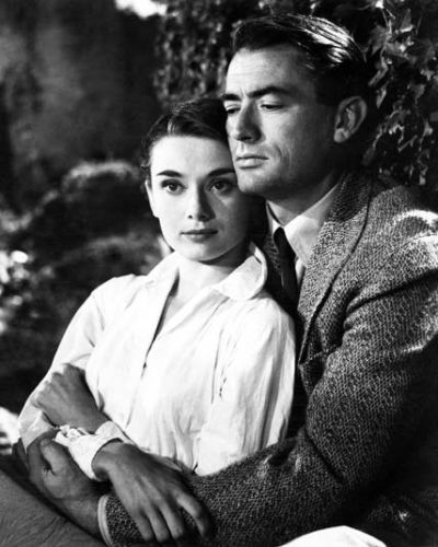 Audrey Hepburn & Gregory Peck still taken for film Roman Holiday (1953). See also film still. No copyright notice.